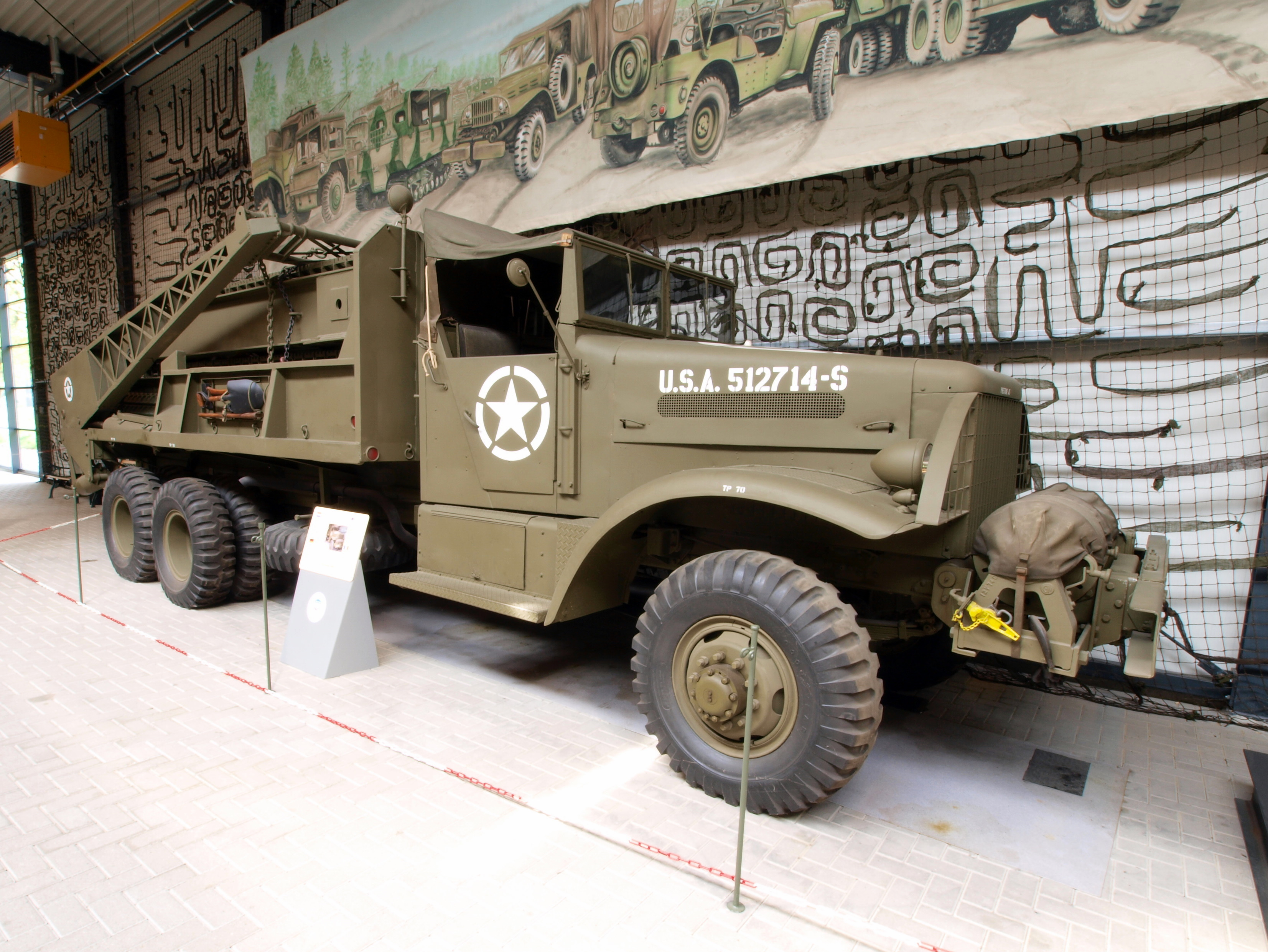 Photographed at the Marshallmuseum - Liberty Park - Oorlogsmuseum Overloon, The Netherlands. OLYMPUS DIGITAL CAMERA